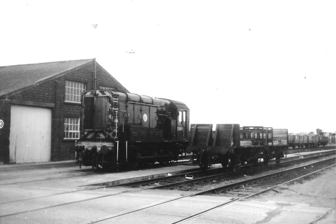 Felixstowe Dock & Railway Company's first shunter Colonel Tomline seen at the docks in 1976. It was a former British Railways class 10 number D3489 which was purchased in 1969. It was retired in 2001 and is (in 2018) preserved in Kent.